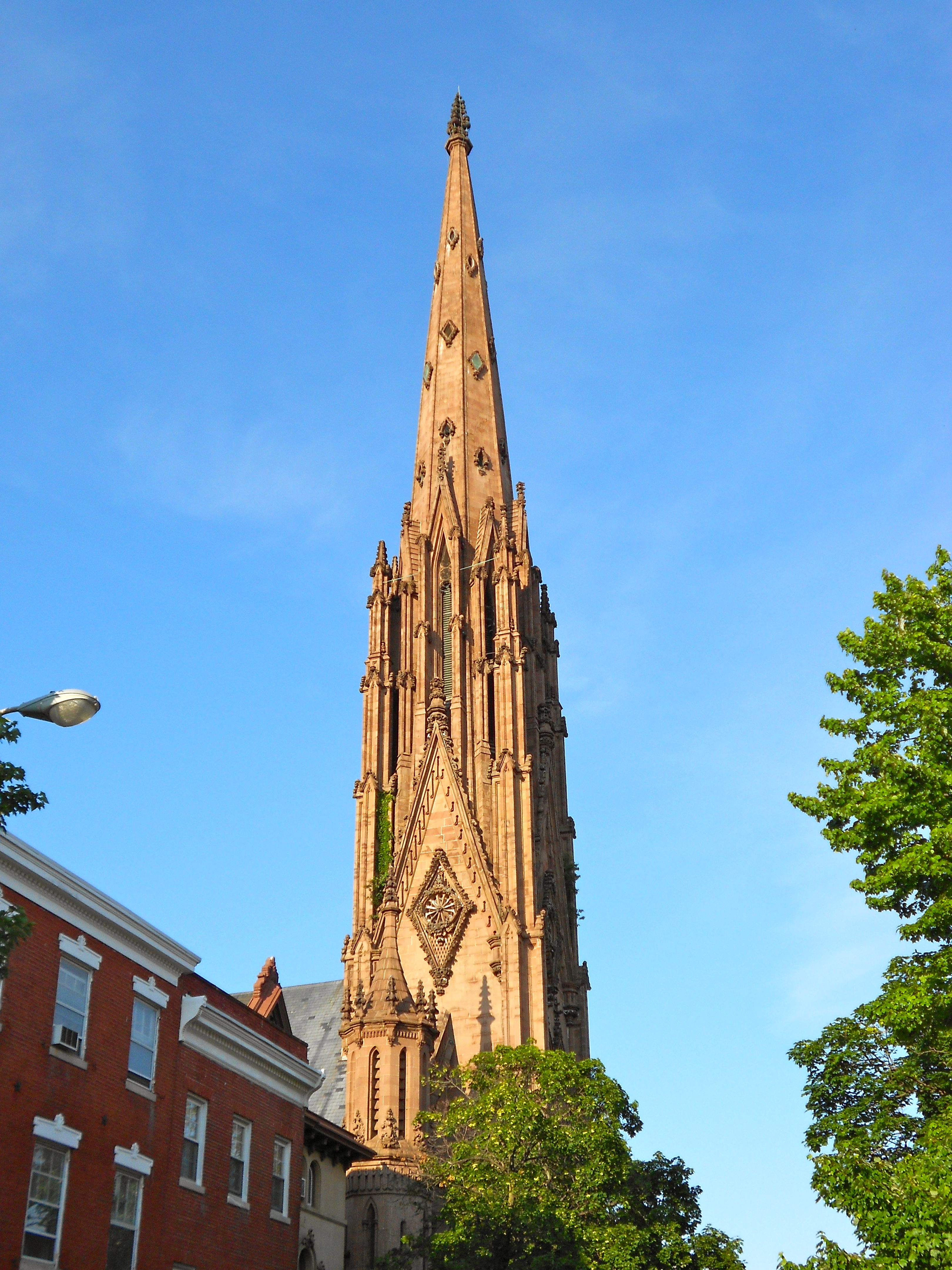 Steeple of the 1st Presbyterian Church of Baltimore. Listed on the NRHP